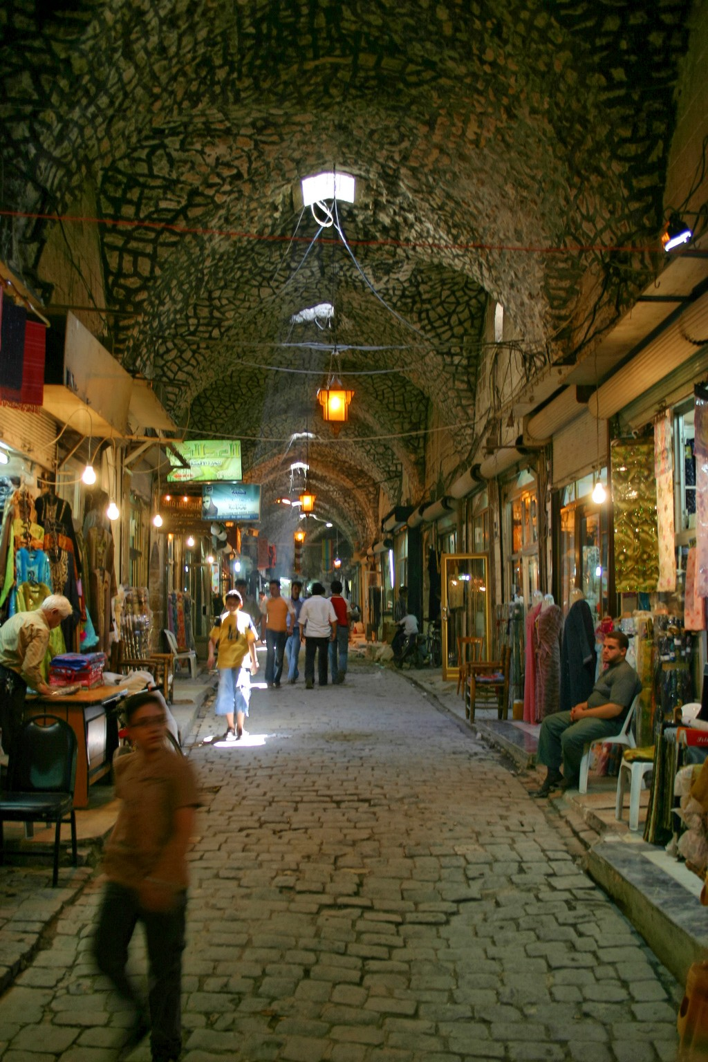 Covered suq in Aleppo, Suq al-'atmah سوق العتمة